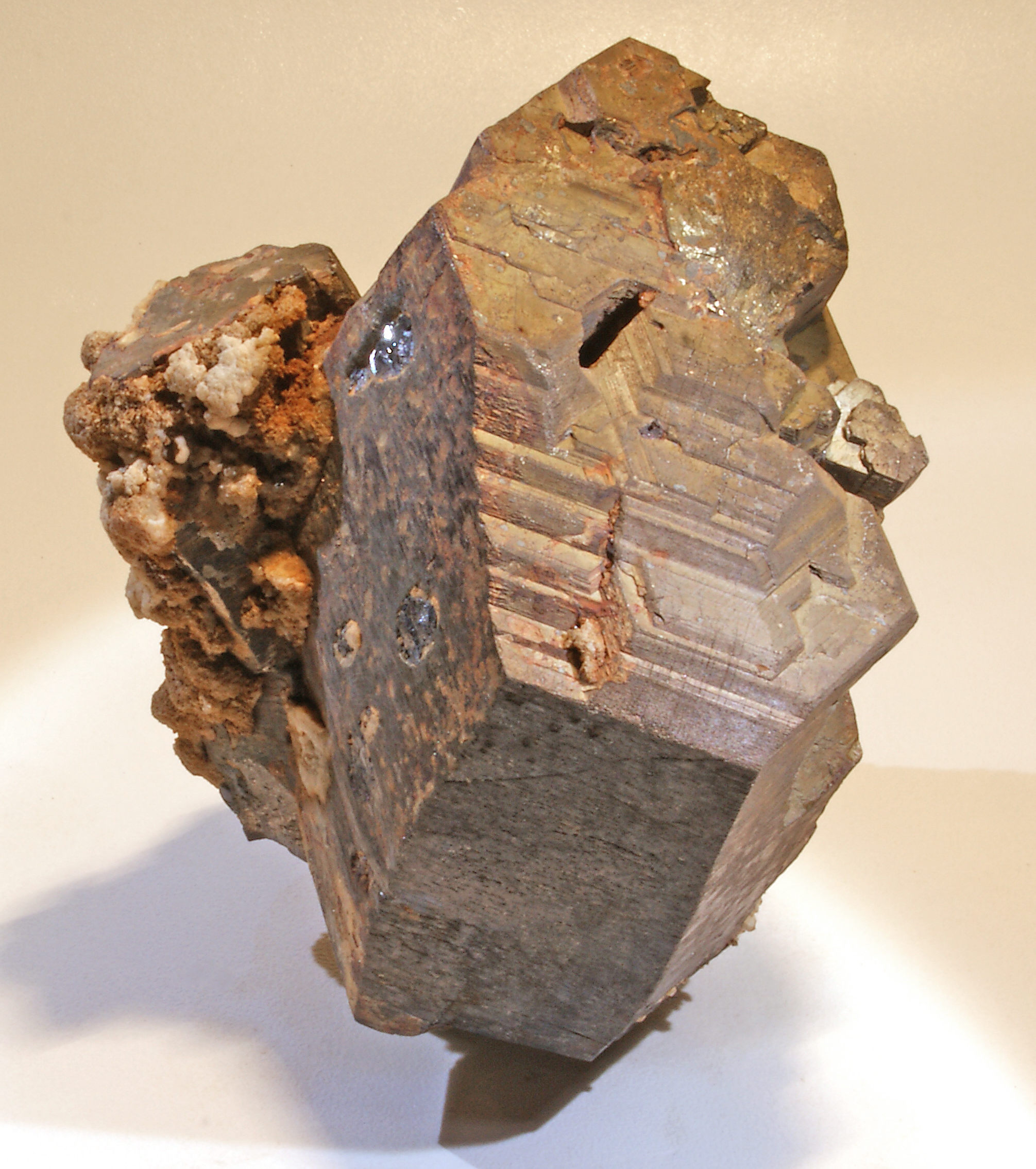 Pyrrhotite – Santa Eulalia Mine (Chihuahua) Mexico (7,5x7cm)